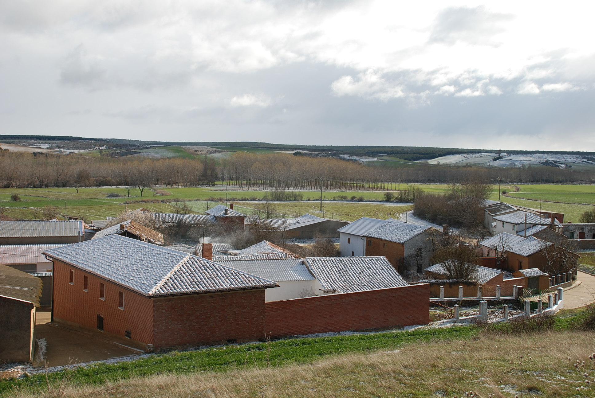 General View of Villamelendro after the small snowstorm at Easter of 2008 (Palencia, Castile-Leon, Spain)